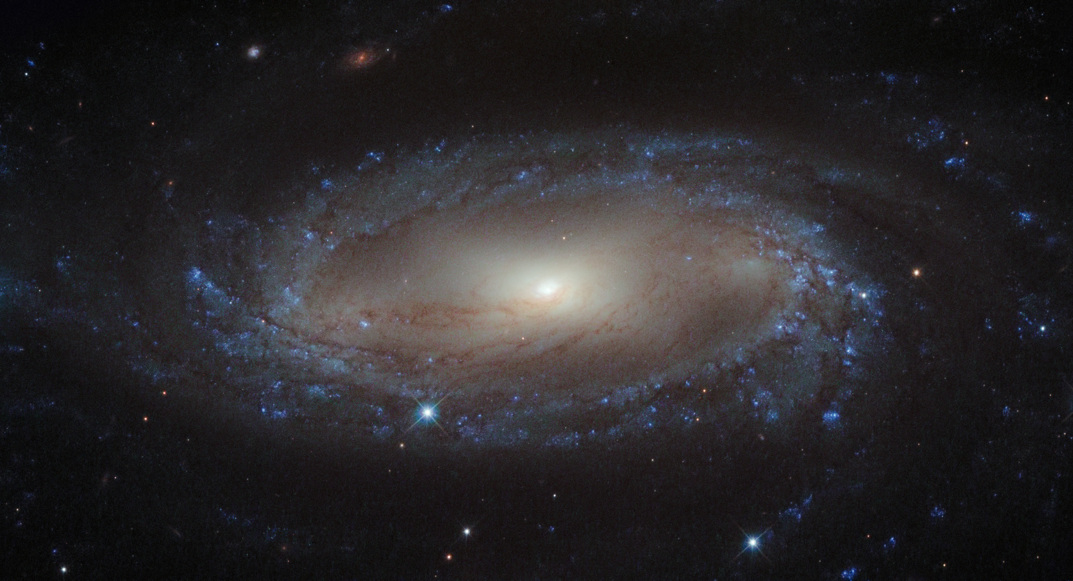 Lying over 110 million light-years away from Earth in the constellation of Antlia (The Air Pump) is the spiral galaxy IC 2560, shown here in an image from NASA/ESA Hubble Space Telescope. At this distance it is a relatively nearby spiral galaxy, and is part of the Antlia cluster — a group of over 200 galaxies held together by gravity. This cluster is unusual; unlike most other galaxy clusters, it appears to have no dominant galaxy within it. In this image, it is easy to spot IC 2560's spiral arms and barred structure. This spiral is what astronomers call a Seyfert-2 galaxy, a kind of spiral galaxy characterised by an extremely bright nucleus and very strong emission lines from certain elements — hydrogen, helium, nitrogen, and oxygen. The bright centre of the galaxy is thought to be caused by the ejection of huge amounts of super-hot gas from the region around a central black hole. There is a story behind the naming of this quirky constellation — Antlia was originally named antlia pneumatica by French astronomer Abbé Nicolas Louis de Lacaille, in honour of the invention of the air pump in the 17th century. A version of this image was entered into the Hubble's Hidden Treasures image processing competition by contestant Nick Rose.